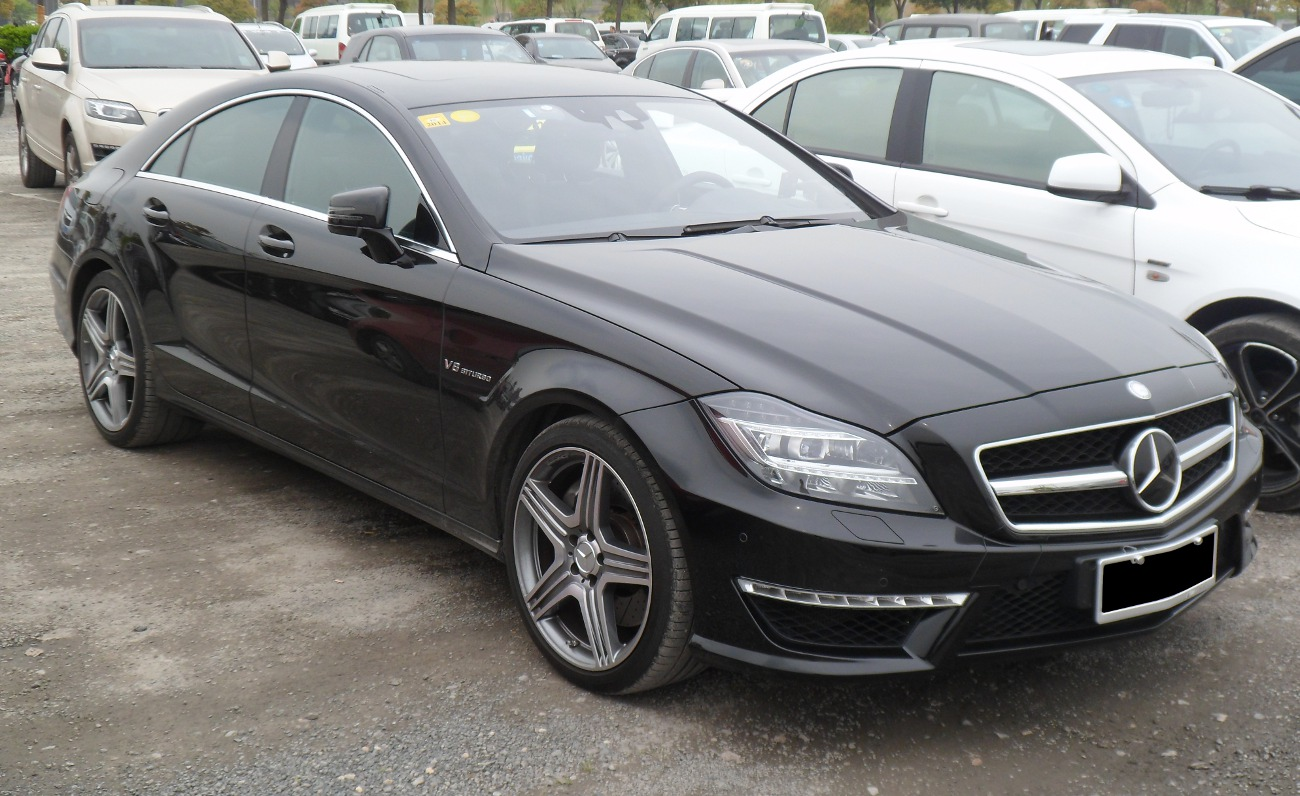 Mercedes-Benz CLS C218 63 AMG photographed in Anting, Shanghai municipality, China.